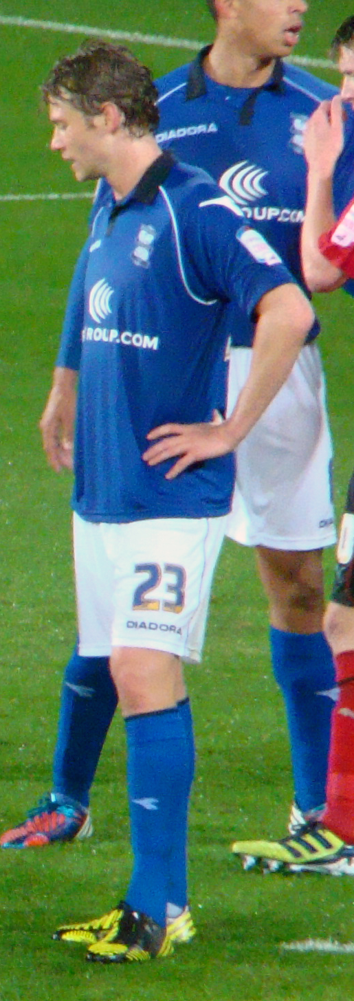 Jonathan Spector. Image cropped from original at flickr.